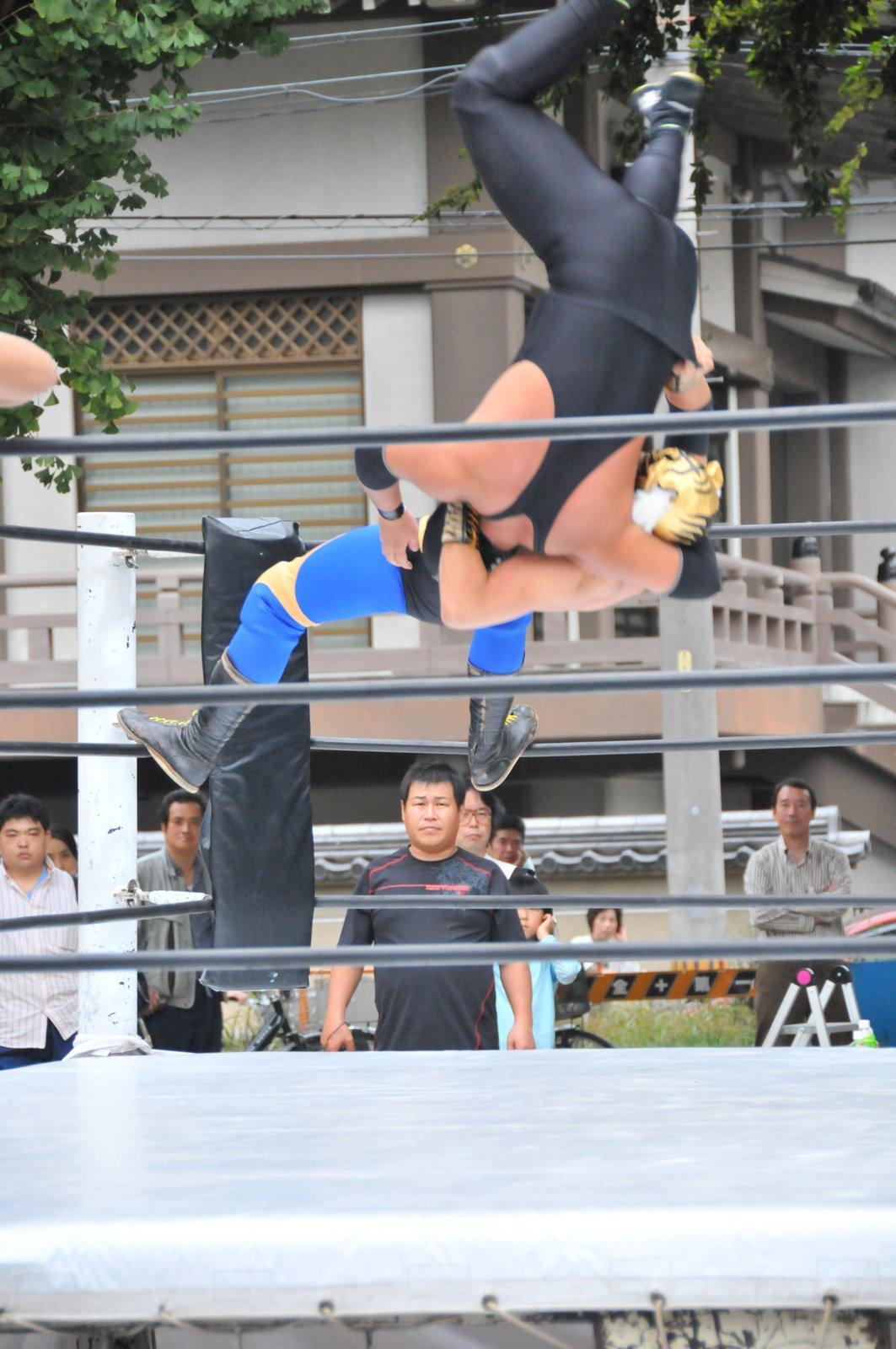 Superplex (vertical suplex, brainbuster from second rope) performed by amateur pro-wrestler